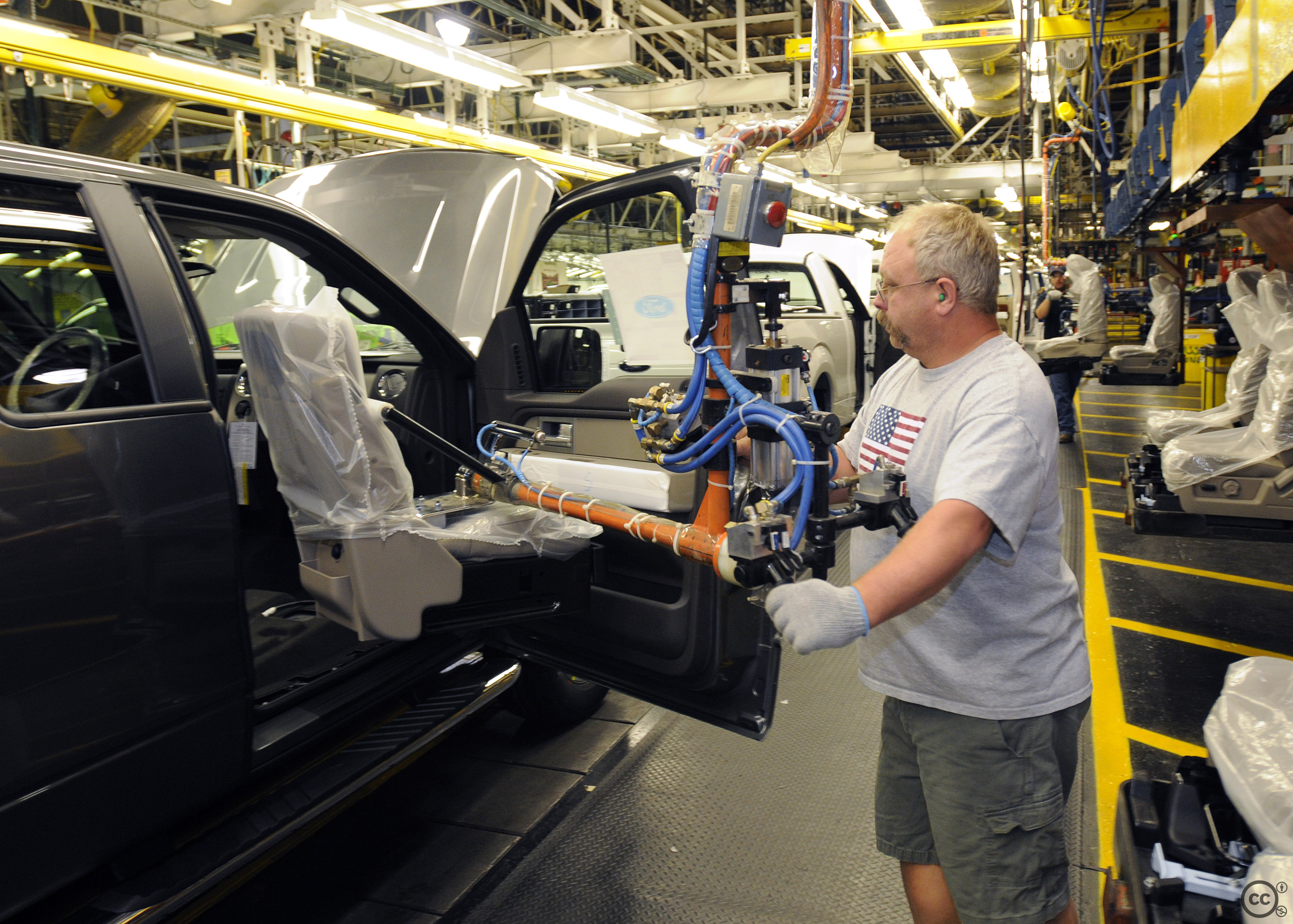 A worker installs a seat into a Ford F-150 at the Ford Kansas City Assembly Plant, Claycomo, Missouri, USA.